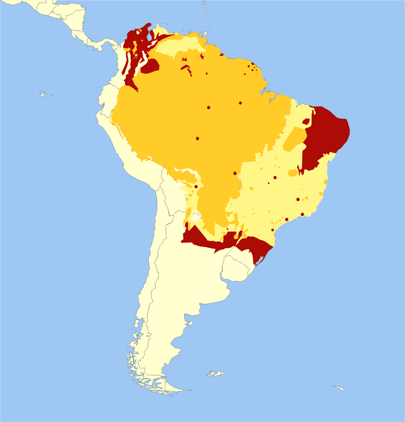 Geographic Distribution of Brazilian Tapir. Extinct Extant Probably extant